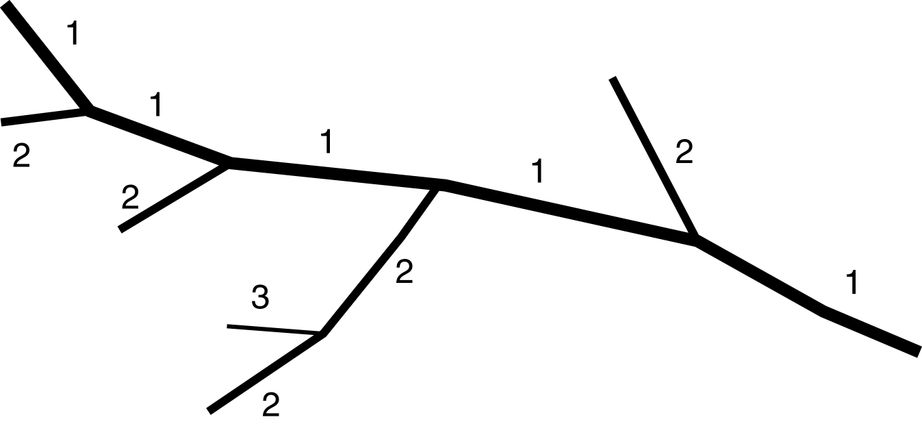 Classic stream order